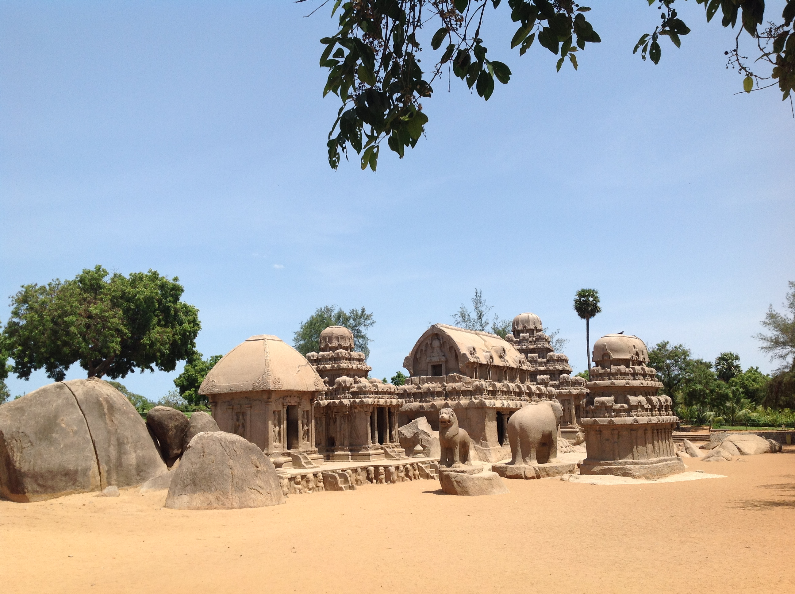 Five Rathas at Mahaballipuram,Tamil Nadu